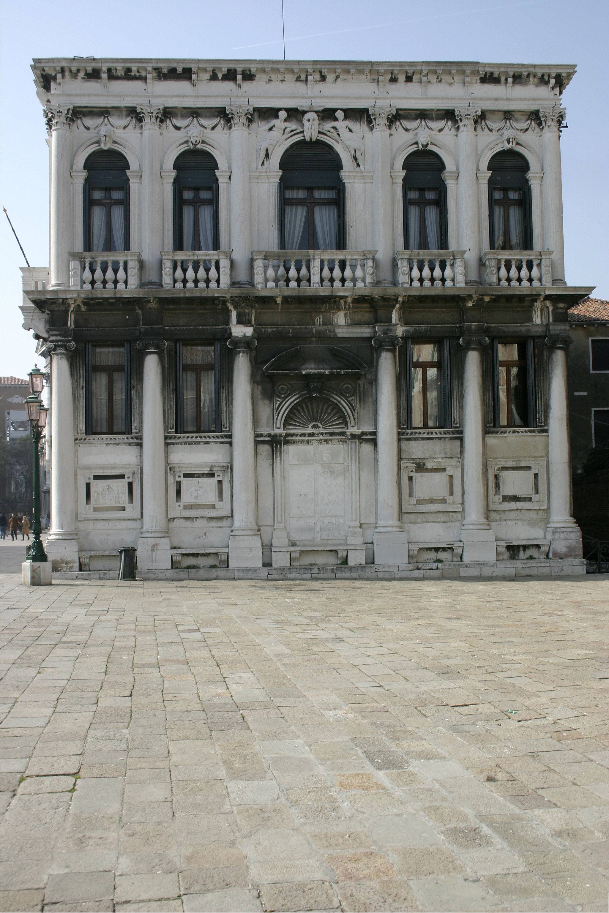 Venice, the manneristic-style facade [1618] towards the church, given to Giovanni Grapiglia, of Palazzo Loredan, in Campo Santo Stefano square.